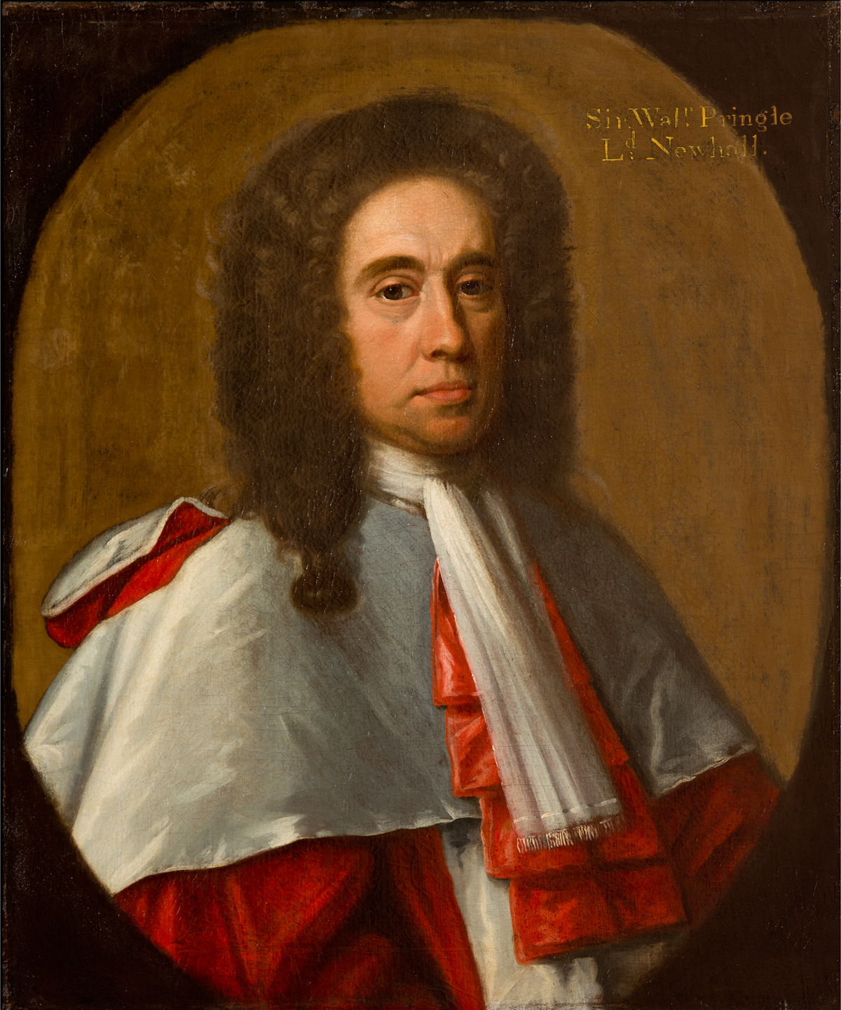 Portrait of Walter Pringle, Lord Newhall (1664?–1736), Scottish judge.